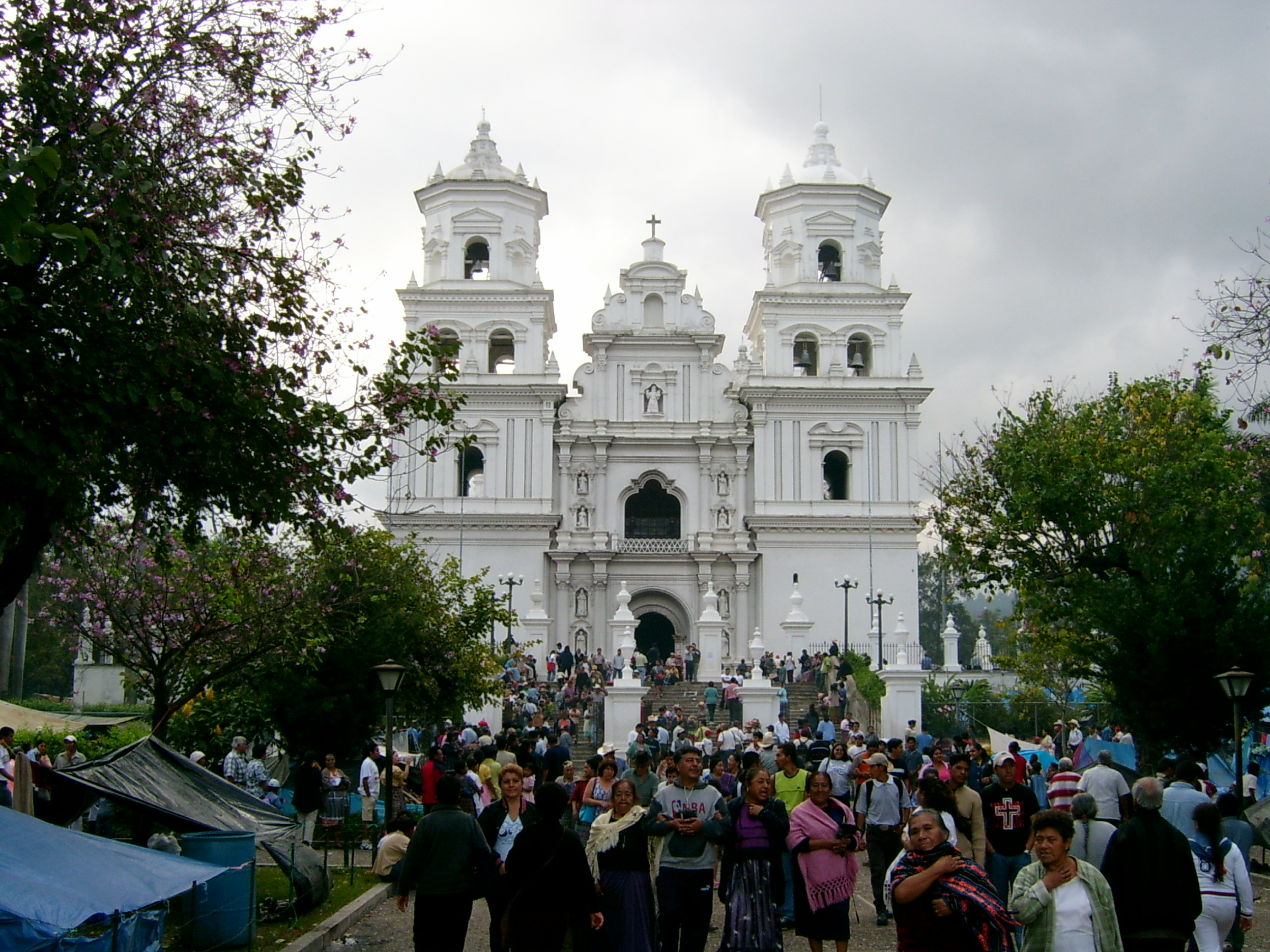 Frontal view of Basilica in Esquipulas, Guatemala on January 14, 2005 - a day before the holiday of Black Christ. During this holiday, he city is crowded by visitors. Some women wear traditional Mayan costumes. Blue tents on both sides of the main path are occupied by poor pilgrim families, which cannot afford a hotel. This picture is my own work (--Sapfan 17:48, 17 July 2006 (UTC)) and was previously published on .